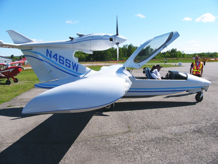 A Seawind